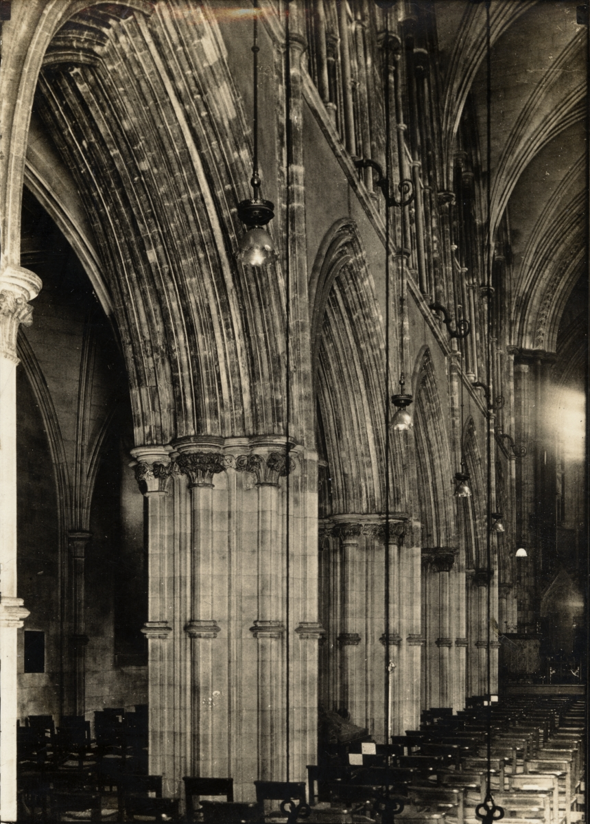 Christ Church Cathedral, Dublin, Ireland, 1914. Leaning wall of Christ Church, Dublin. See American Architect, vol. CVI, #2013, 7/22/1914. No number. Brooklyn Museum Archives, Goodyear Archival Collection (S03_06_01_009 image 1151).